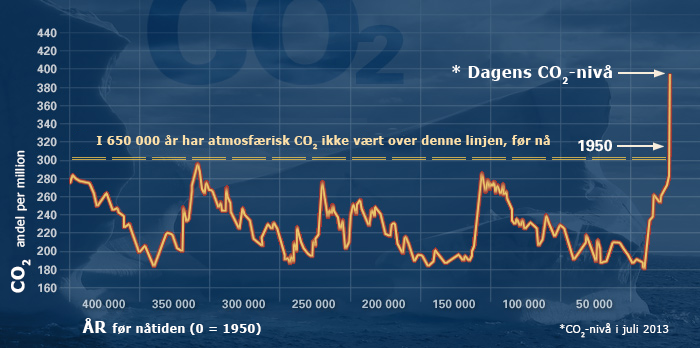 Version in Norwegian. This plots atmospheric CO2 concentration synthesizing ice core proxy data 650,000 years in the past capped by modern direct measurements.